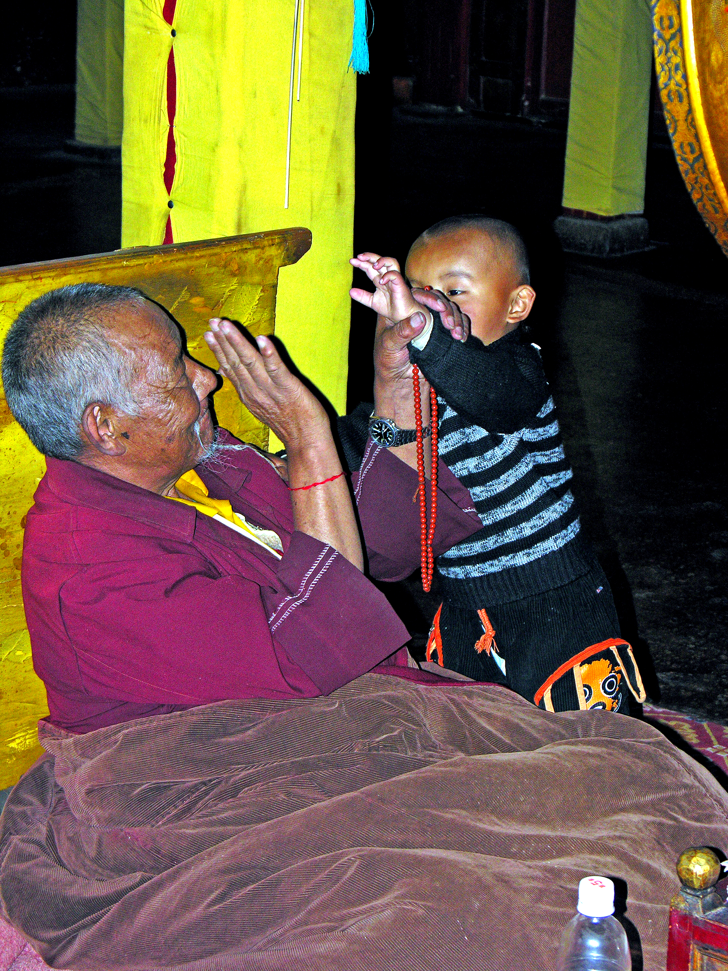 This old monk was having fun with a child that was visiting the palace. Lhasa, Tibet